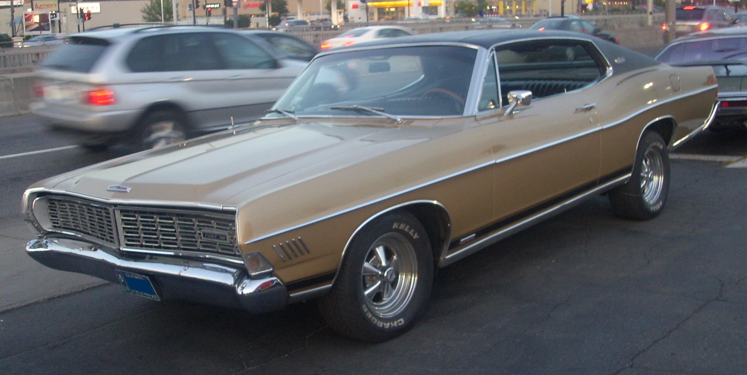 1968 Ford XL Fastback, photographed in Montreal, Quebec, Canada at Gibeau Orange Julep.